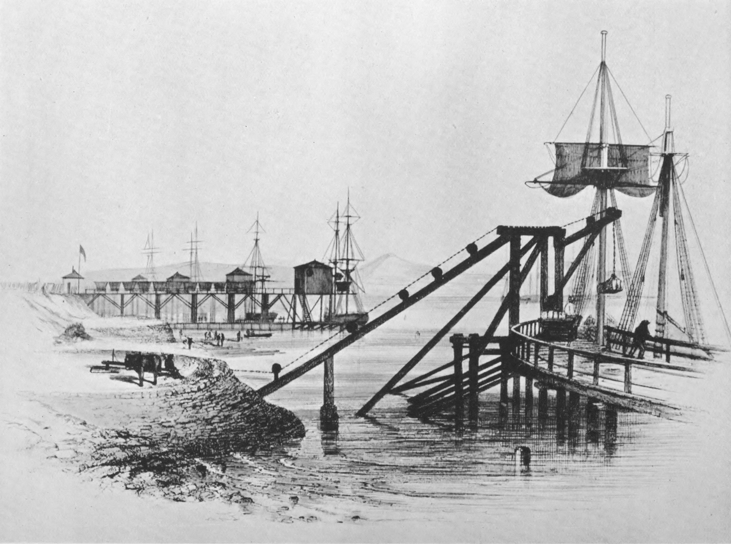 The 'drops' at Port Clarence, used for transferring coal from trains onto ships